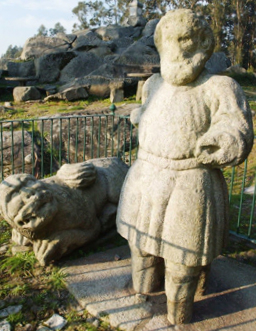 Homem da maça e o seu bicho